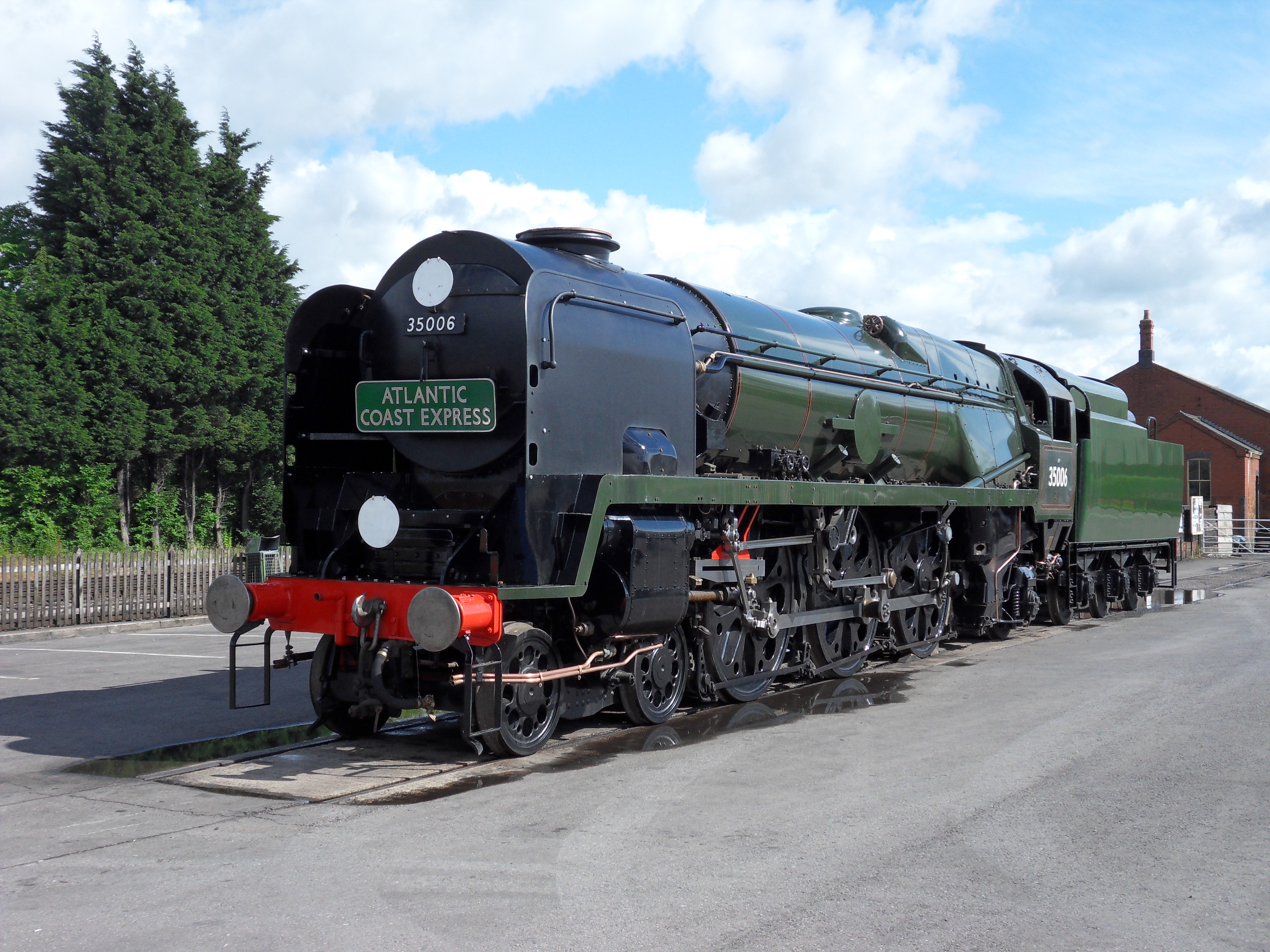 35006 Peninsular & Oriental Steam Navigation Co. (P&O) At Toddington Car park during the 2014 Cotswold Festival of Steam.